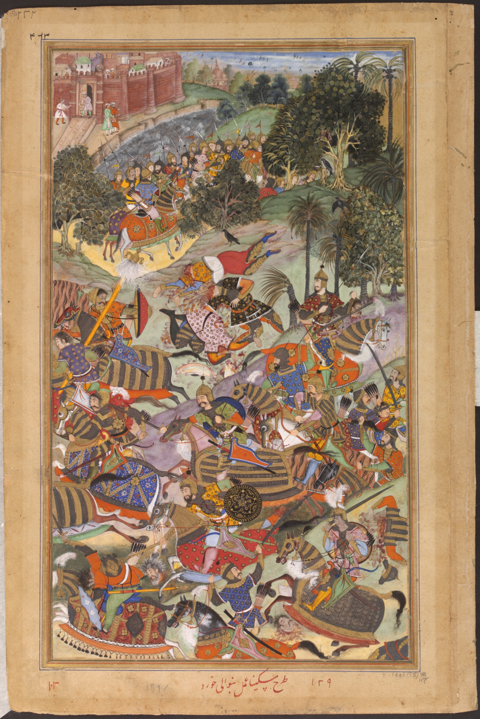 A battle between the Mughals and Muhammad Husain Mirza near Ahmadabad in north-west India in 1573, during the long and ultimately successful Mughal campaign to conquer the territory of Gujarat. Those bearing the title Mirza were, like the Mughal royal family, descended from Timur, the Central Asian ruler who had briefly conquered Hindustan, as the northern regions of South Asia were known, in 1398. As a result, Hindustan was later seen as a legitimate target for conquest by members of the different branches of the family. During the reign of the Mughal emperor Akbar (r.1556–1605) battles between Mughal forces and various Mirzas frequently took place as each tried to seize control of a particular region. The title Mirza is a contraction of the Persian ‘Amirzadeh’, meaning ‘born of the amir’ (that is, Timur). Here, Muhammad Husain Mirza had taken advantage of Akbar’s departure from Gujarat to try to seize the region, and Mughal forces had been despatched to prevent this.